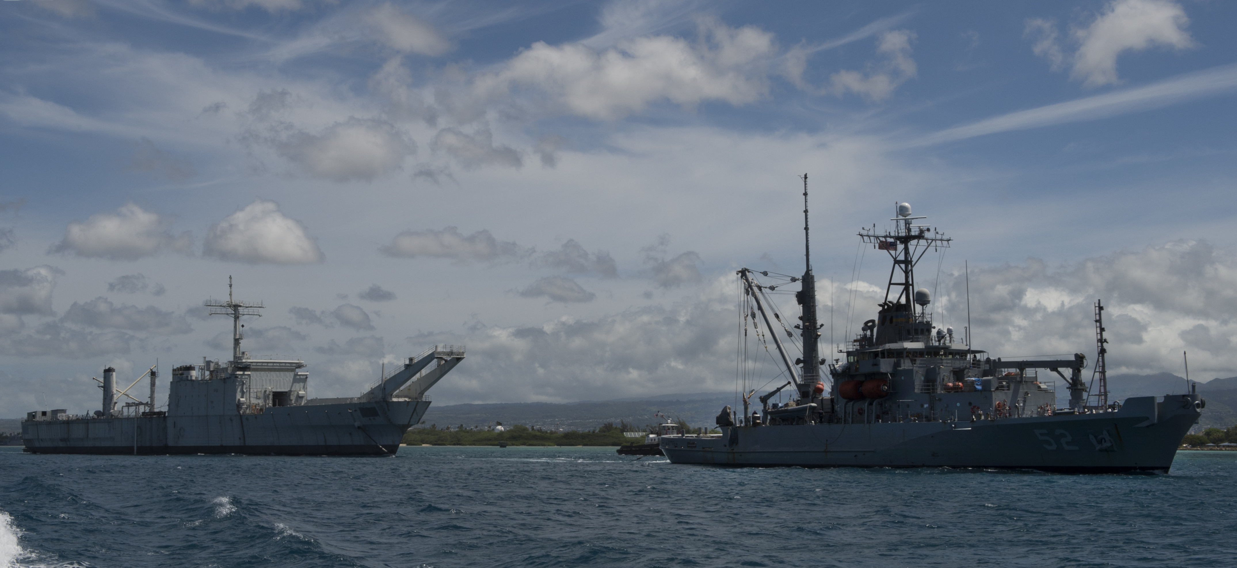 The decommissioned U.S. Navy tankl landing ship USS Tuscaloosa (LST-1187) is towed out of Pearl Harbor, Hawaii (USA), by the Military Sealift Command rescue and salvage ship USNS Salvor (T-ARS-52) in preparation for a sinking exercise (SINKEX) as part of Rim of the Pacific (RIMPAC) Exercise 2014.